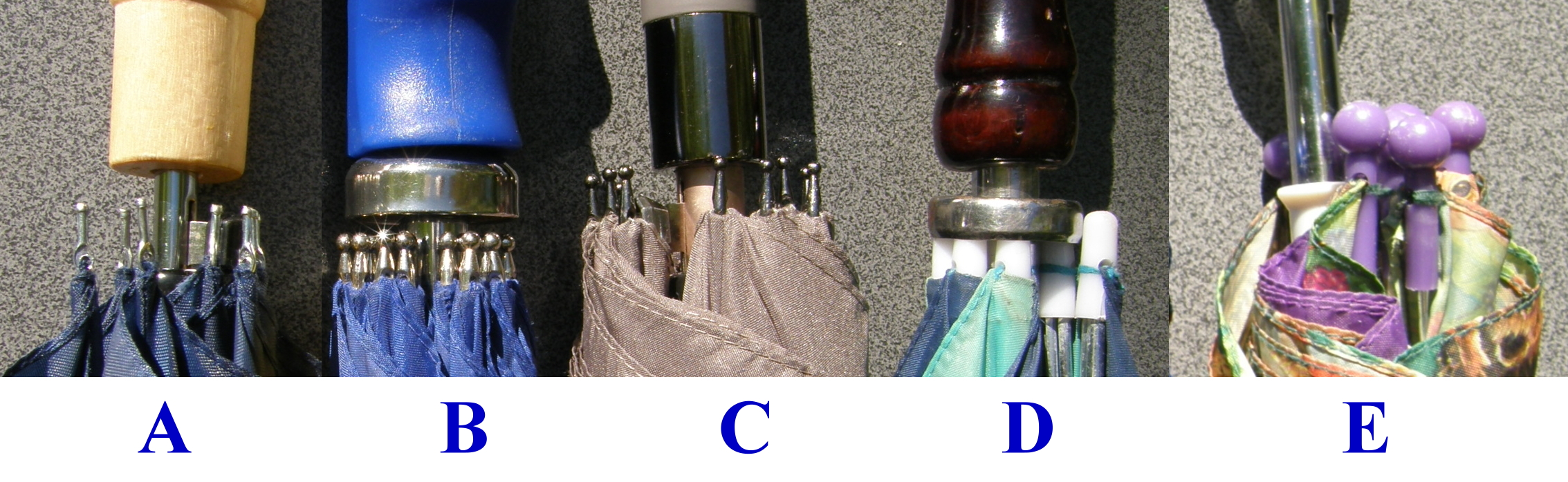 Umbrella-tips